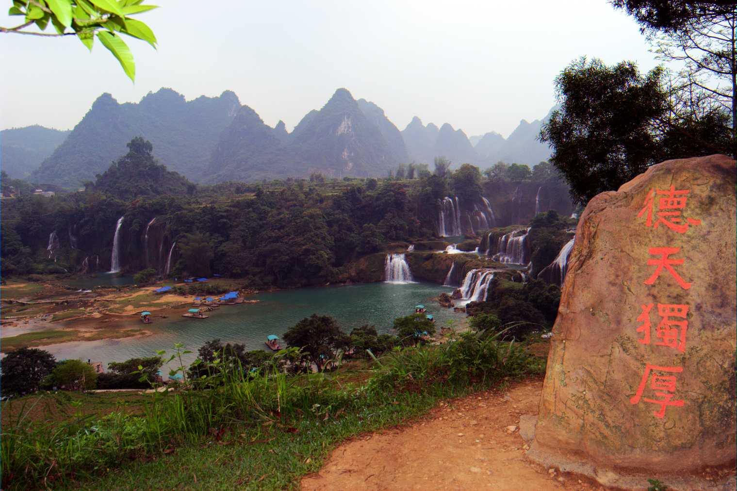 Detian – Ban Gioc Falls. karst terrain at the Sino-Vietnamese border, in the hills of Daxing County, Chongzuo prefecture of Guangxi Province. There are sino-vietnamese controversies regarding the border demarcation at this location.